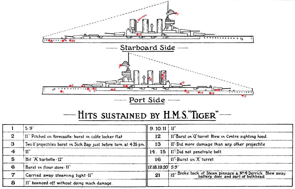 Diagrams showing location of shell hits sustained by British battlecruiser HMS Tiger at the Battle of Jutland.